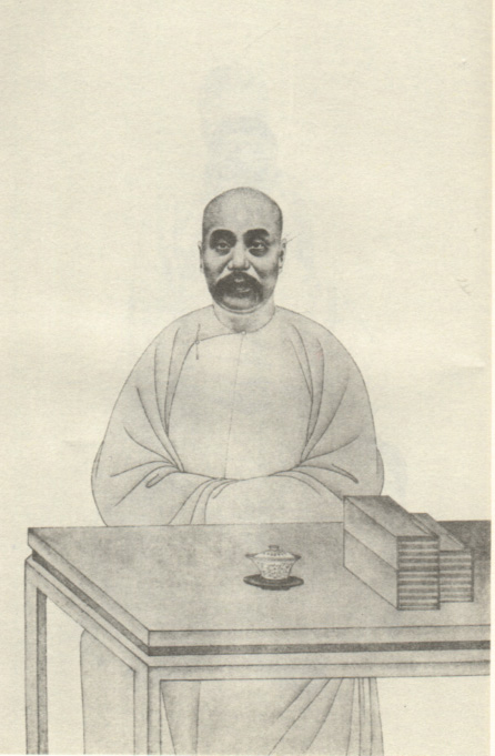 LIAO Tingxiang, scholar of the Qing Dynasty.